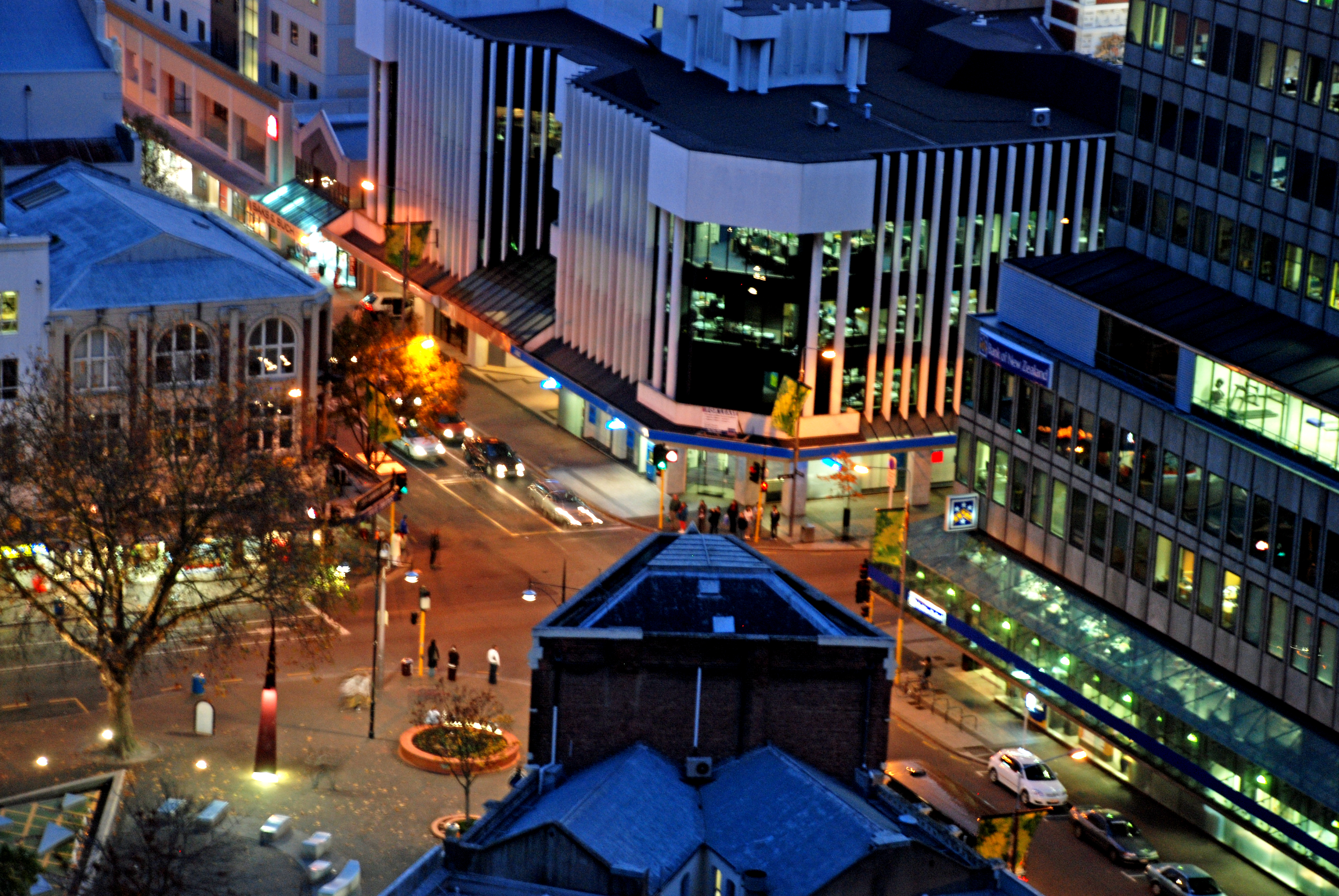 Taken from the top floor of the Grand Chancellor Hotel, now to be demolished following the February 2011 earthquake.